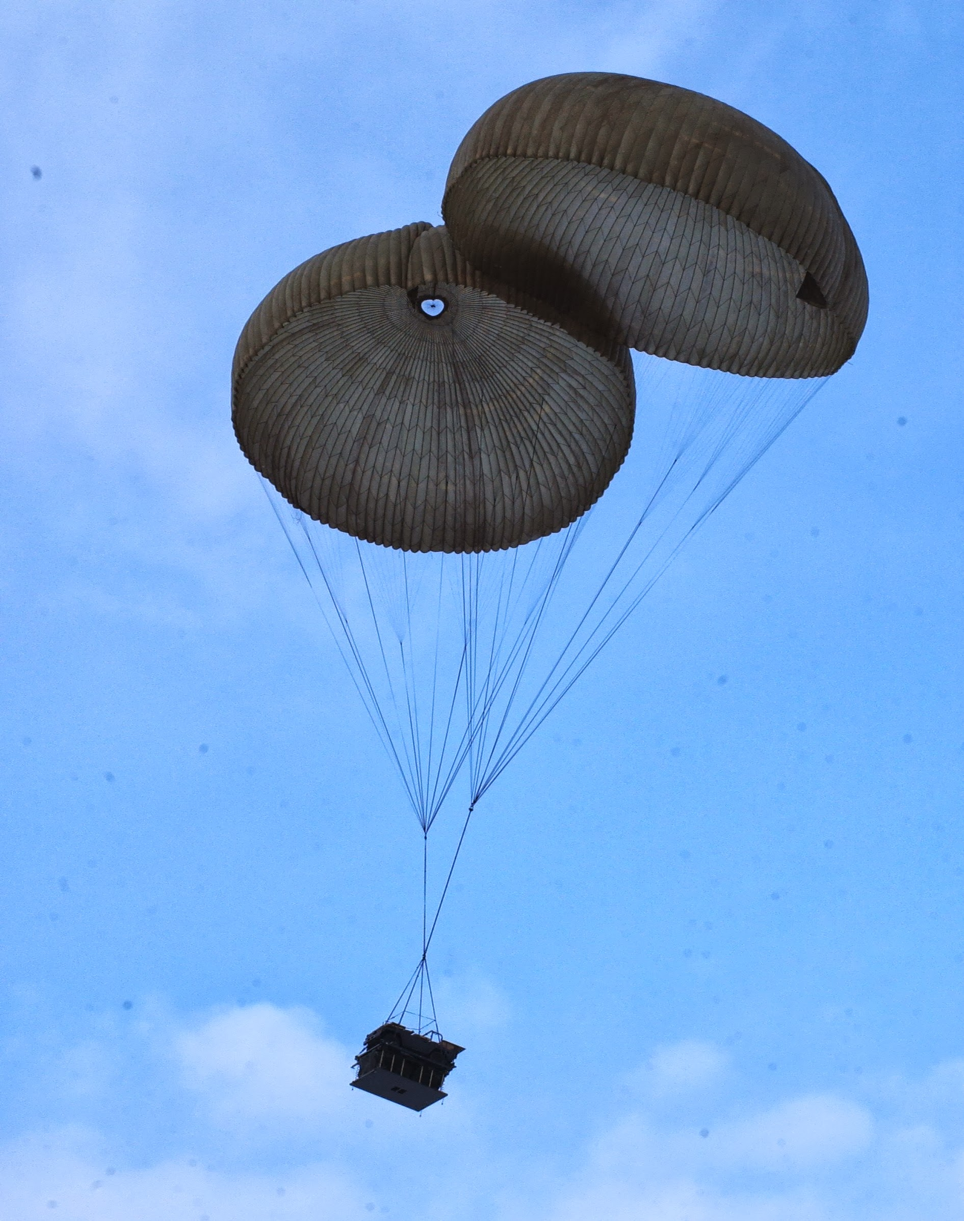 Title 重物料投下器材 降下中.jpg Album 装備 重物料投下器材